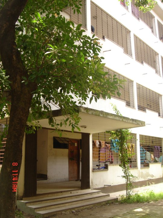 BIMT New Hostel